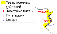 Caesar's campaign in Africa.